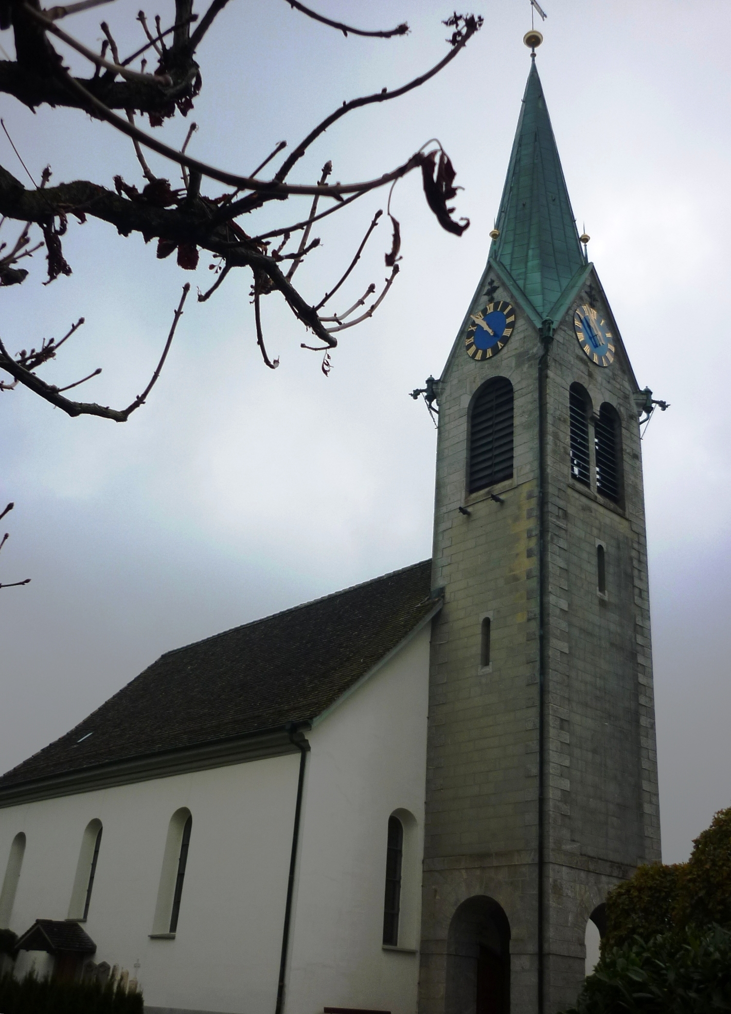 Church, Schönenberg ZH, Switzerland